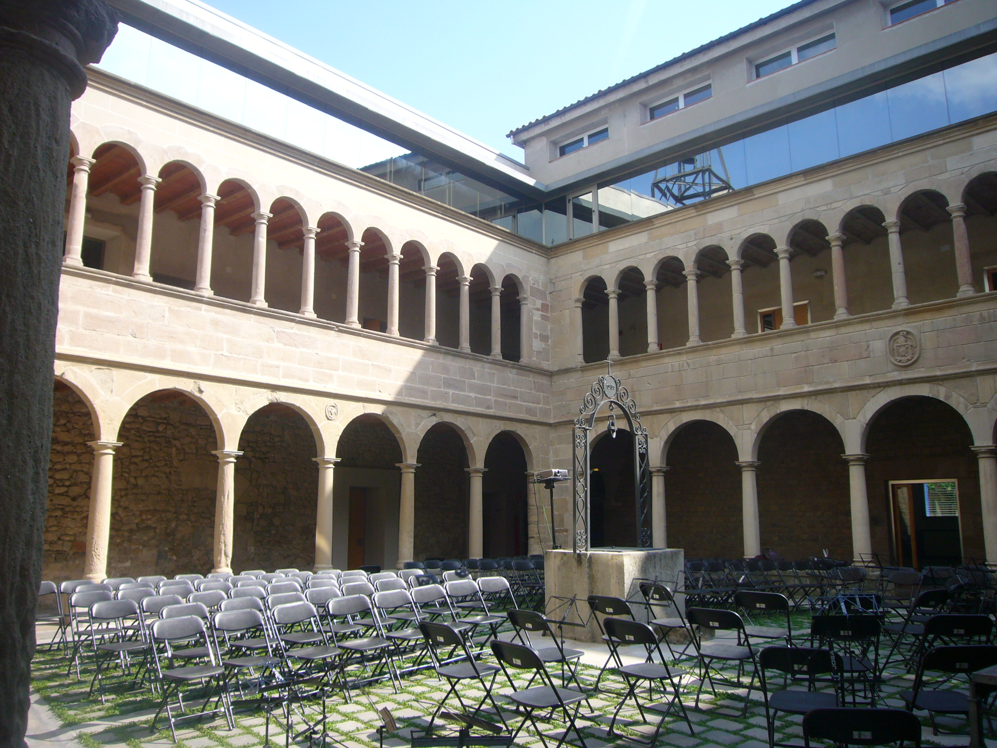 Renaissance cloister of "Convent de Sant Agustí" (Igualada). Chairs ready for a classical music concert.